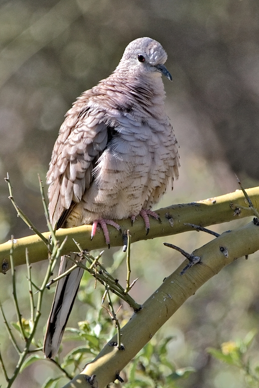 Inca Dove (Columbina inca) — in Lost Dutchman State Park, Arizona.